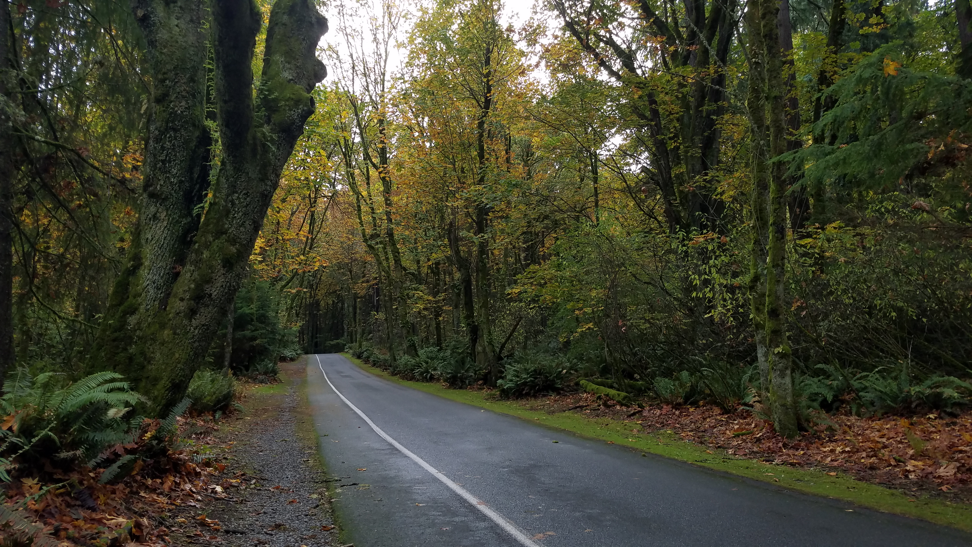 Part of the 5-mile-road cutting through Point Defiance.